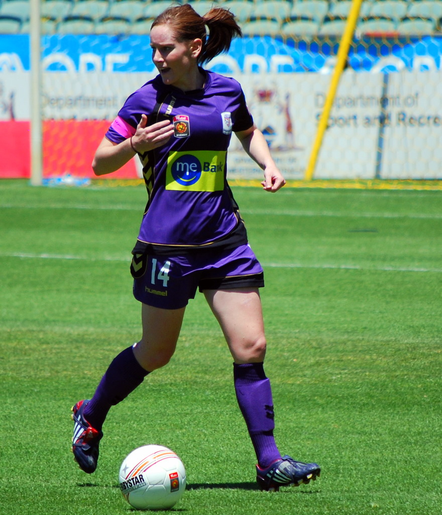 McCallum controlling the midfield for Perth Glory against Adelaide United in their Round 2 clash (2010)